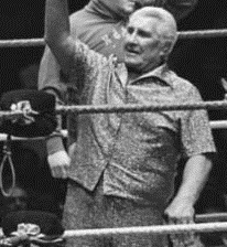 WWE Hall of Famer "Classy" Freddie Blassie